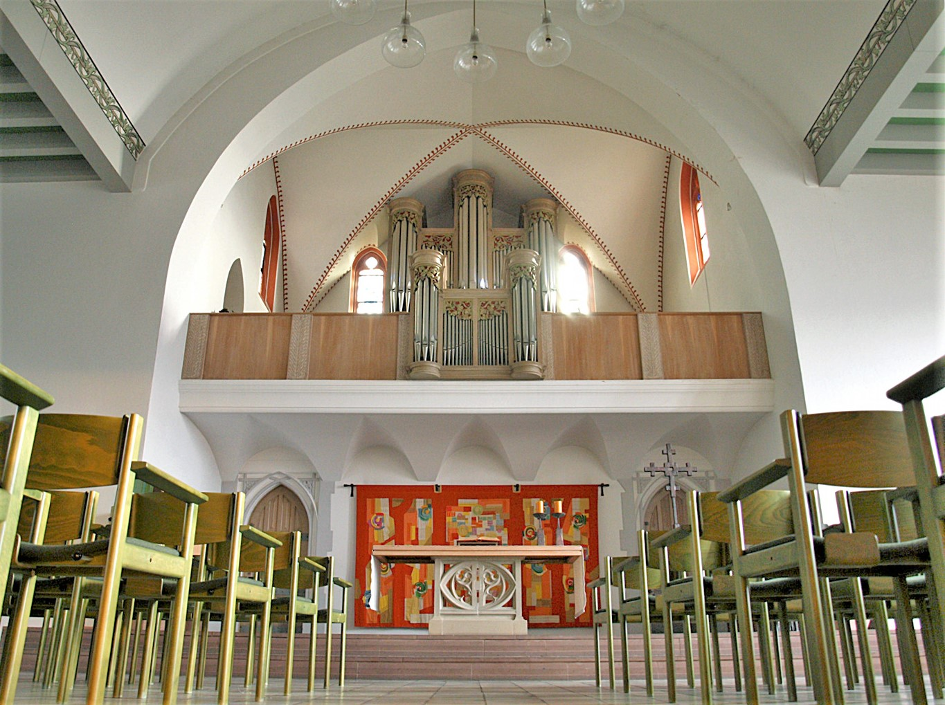 Chancel of Kreuzkirche in Saarbrücken-HerrensohrNorsk bokmål: alter og orgel i Kreuzkirche i Saarbrücken-Herrensohr